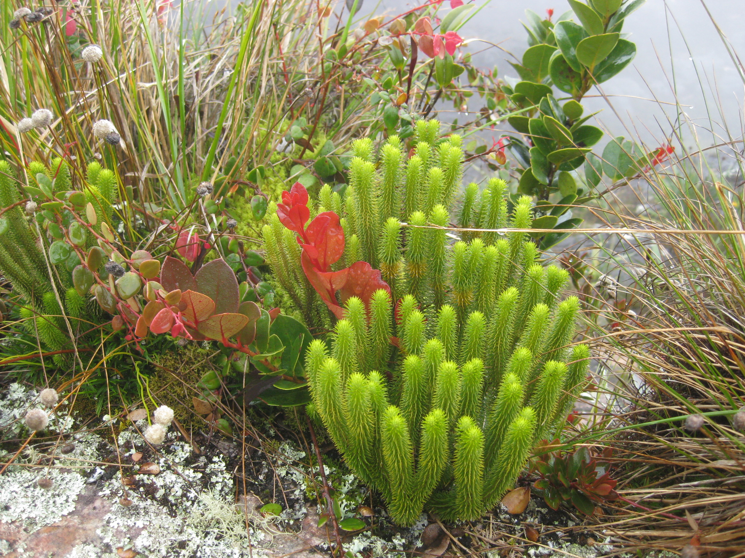 Cyrilla racemiflora (red leaves), Paepalanthus convexus (white flowers) and Huperzia (green tuft), Mount Roraima, Venezuela